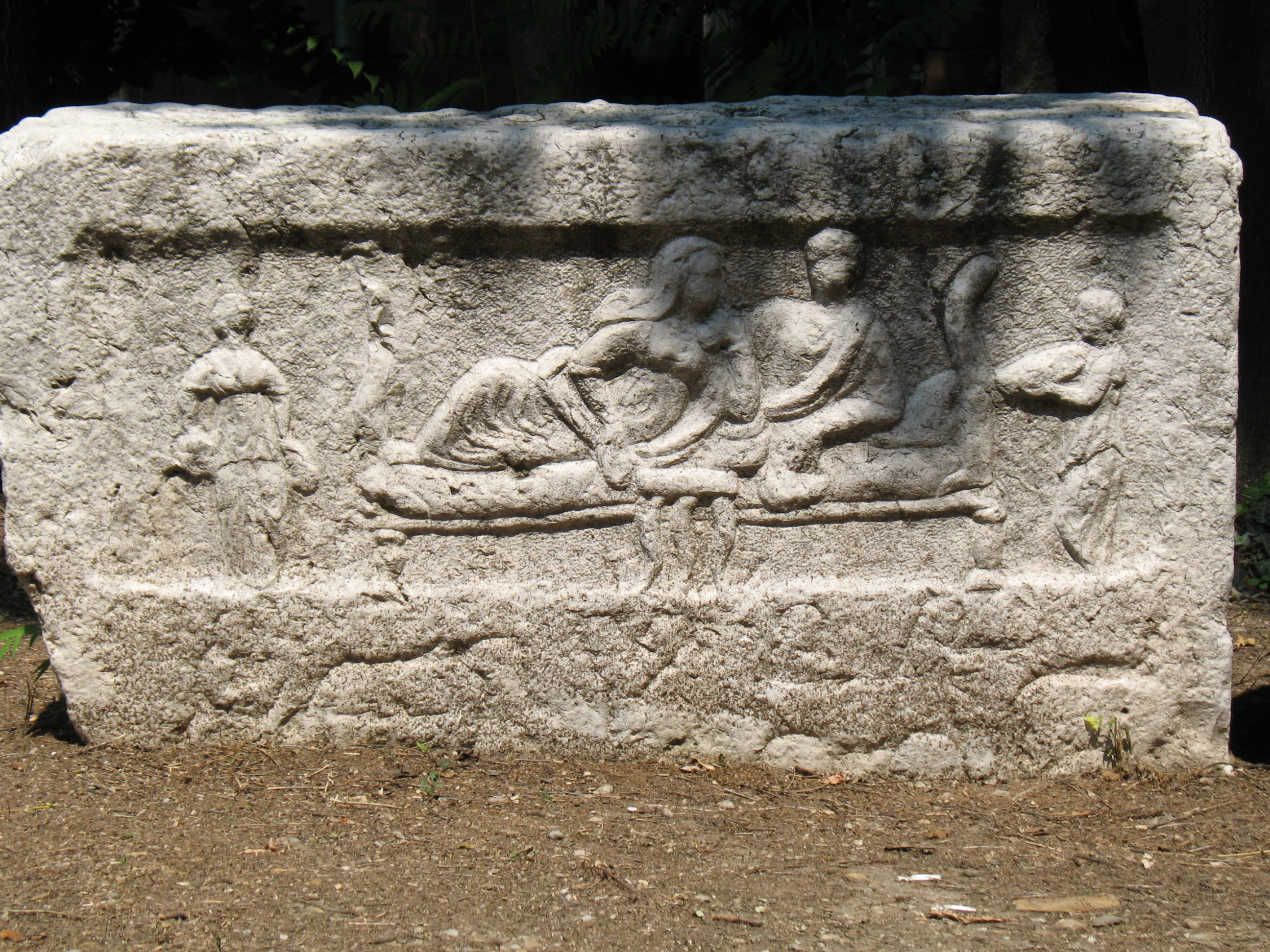 A Roman reliefs of a funerary banquet found in Sexaginta Prista fortress near Rousse, Bulgaria.